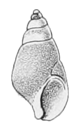 Drawing of an apertural view of a shell of Hinea brasiliana